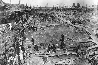 the prisoners' labour at the Belomorkanal construction site